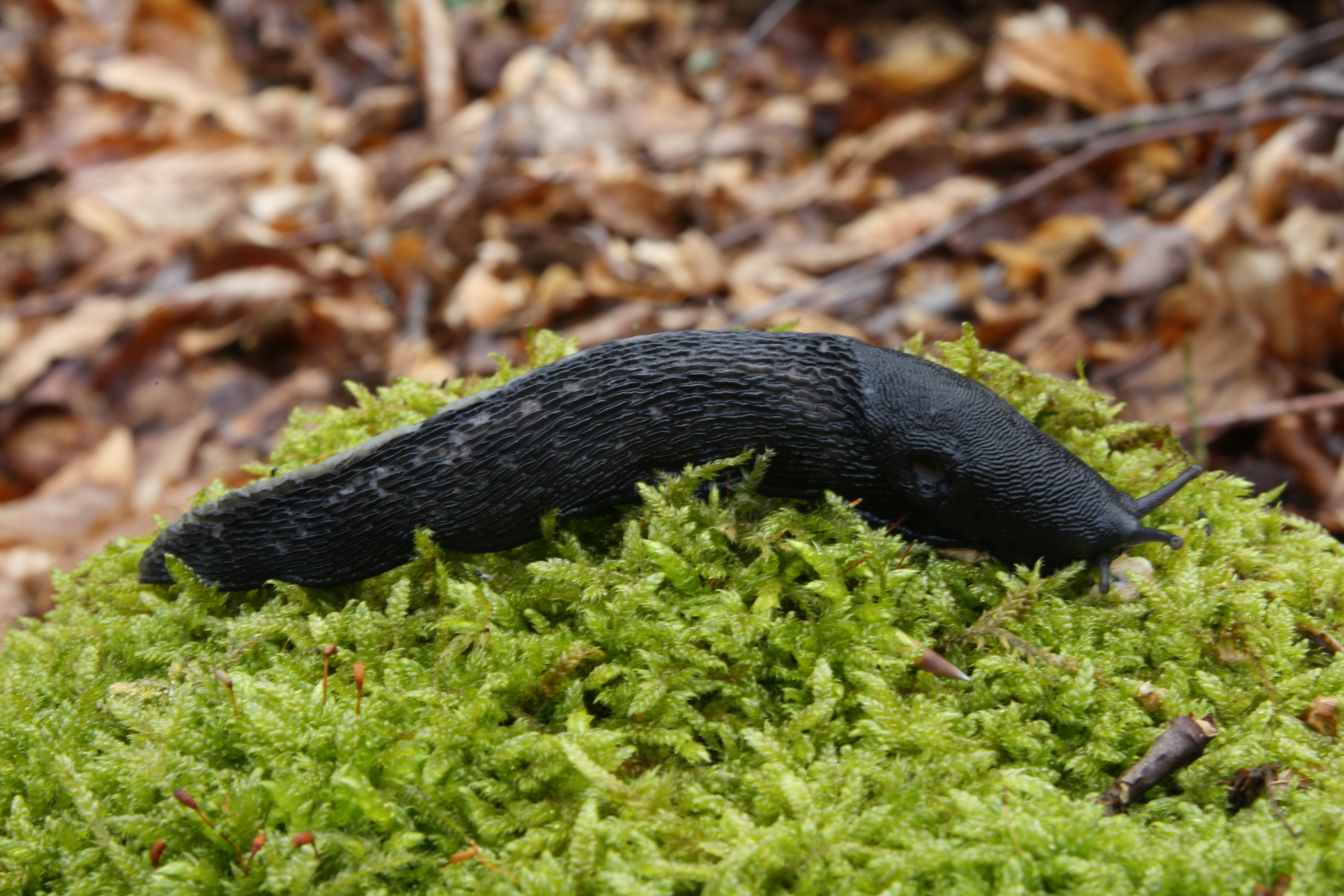 Kappes et al. (2010): „L. cinereoniger occurs at (...) well structured old-growth sites that are rich in coarse woody debris.“ The municipal forest in Hümmel, managed ecologically, is an investigational object for four final assignments at the Institute for Environ­mental Research (RWTH Aachen) from 2010 to 2011.